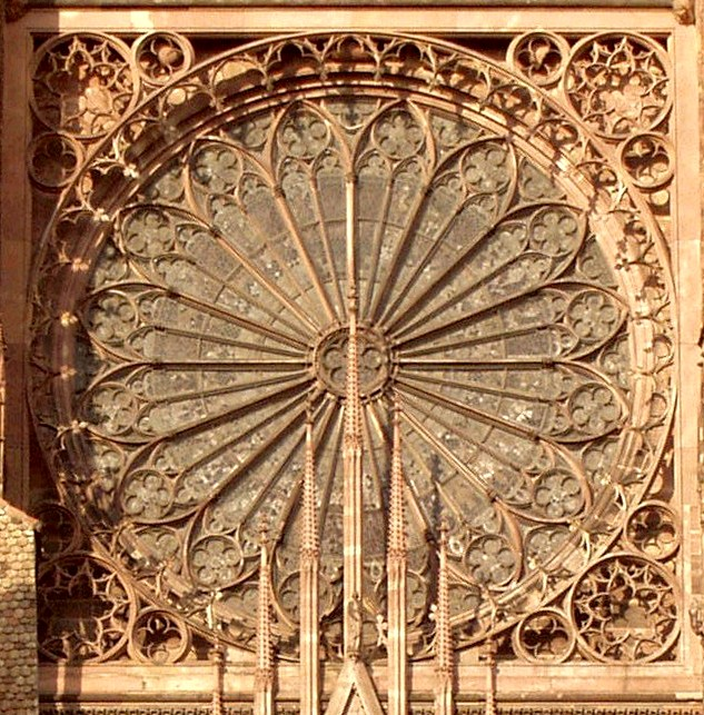 The rose window of Strassburg (Strasboug) cathedral, exterior view. Crop of wider image.